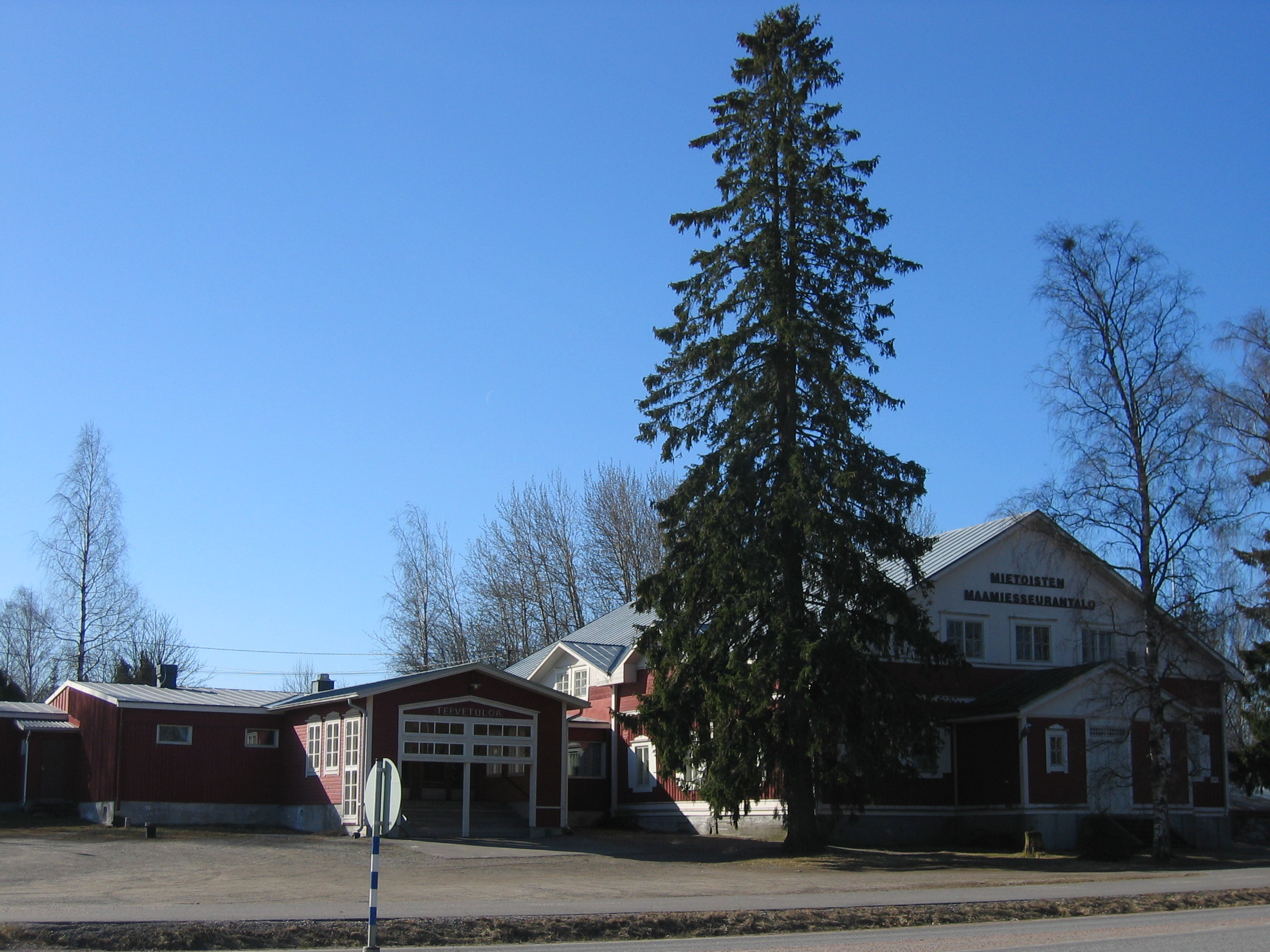 Mietoisten maamiesseurantalo building in Mietoinen, Finland